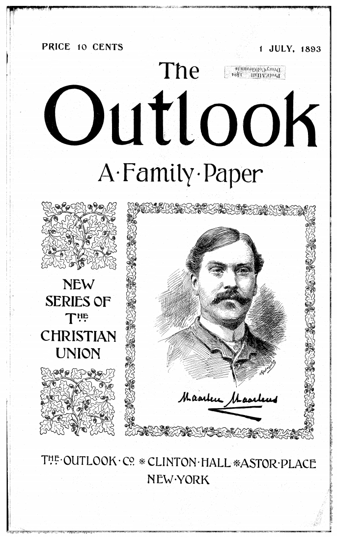 The First Cover of The Outlook, Newspaper